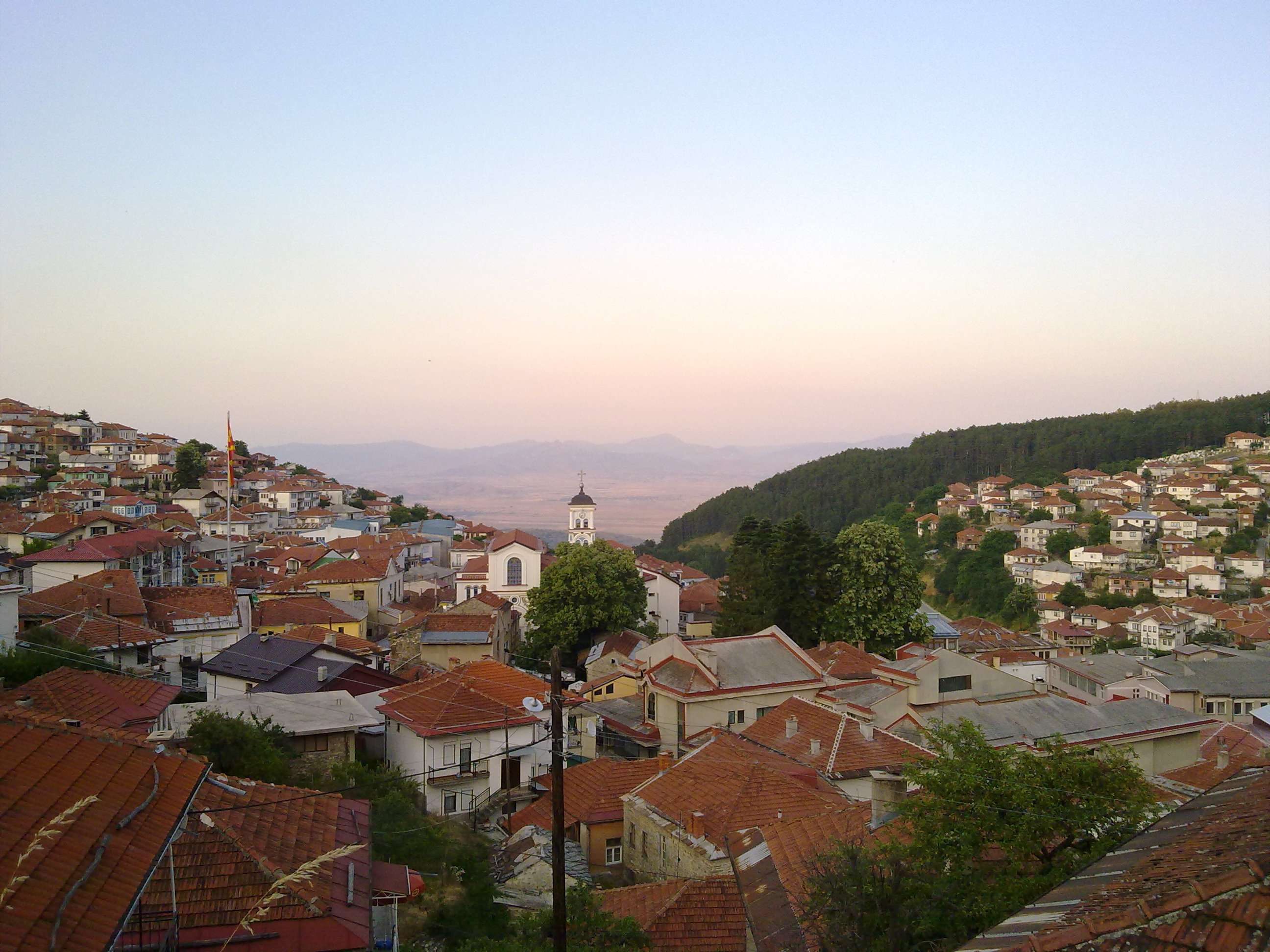 Kruševo downtown.